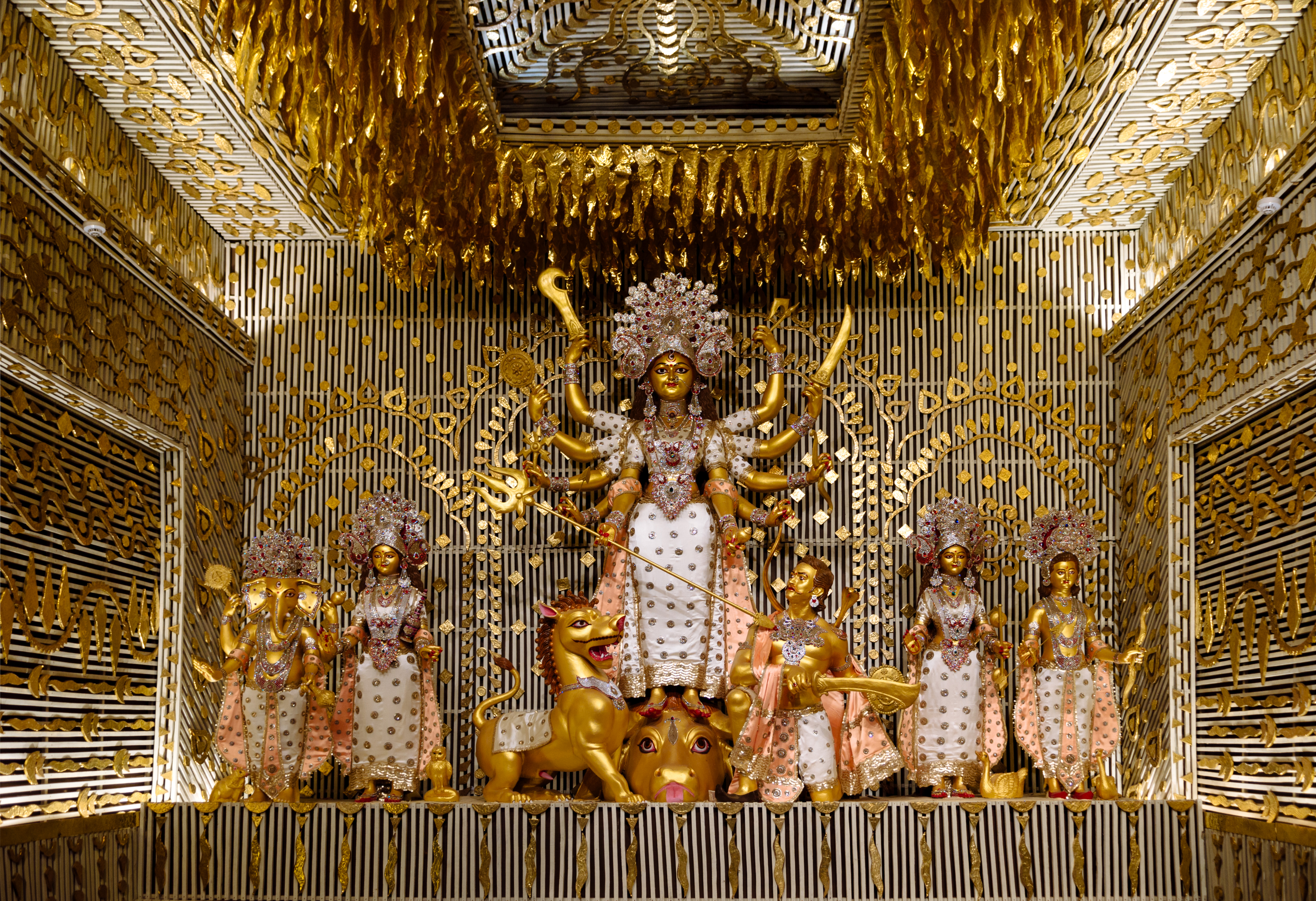 Chalta Bagan Durga Puja 2019 in Manicktala, Kolkata, India Durga Puja, also called Durgotsava, is an annual Hindu festival in the Indian subcontinent that reveres the goddess Durga. It is particularly popular in West Bengal, Bihar, Jharkhand, Odisha, Assam, Tripura, Bangladesh and the diaspora from this region, and also in Nepal where it is called Dashain. The festival is observed in the Hindu calendar month of Ashvin, typically September or October of the Gregorian calendar, and is a multi-day festival that features elaborate temple and stage decorations (pandals), scripture recitation, performance arts, revelry, and processions. It is a major festival in the Shaktism tradition of Hinduism across India and Shakta Hindu diaspora.